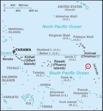 Map of Kiribati, adapted version of the post-1995 South Pacific section of Kr-map.png with Malden Island highlighted